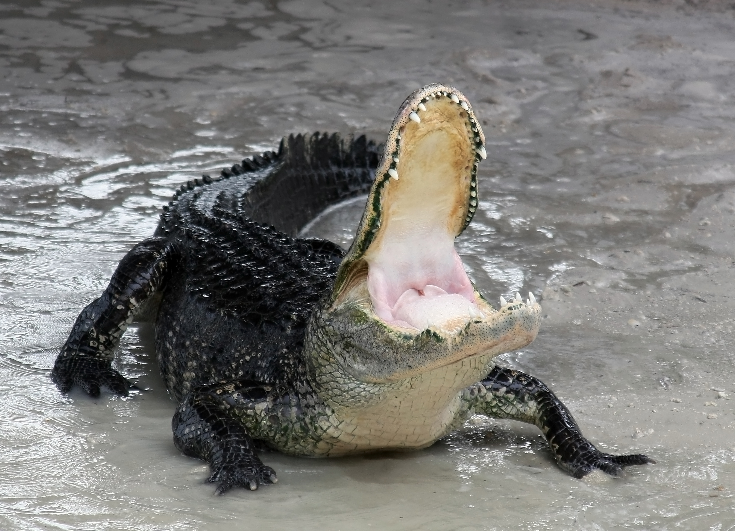 A captive American alligator in a defensive position. Note that the palatal valve is closed.